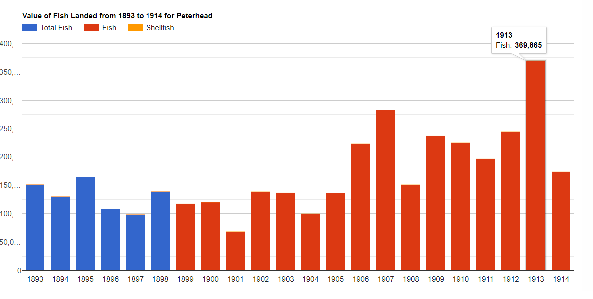 Value of fish landed in Peterhead between 1893 and 1914